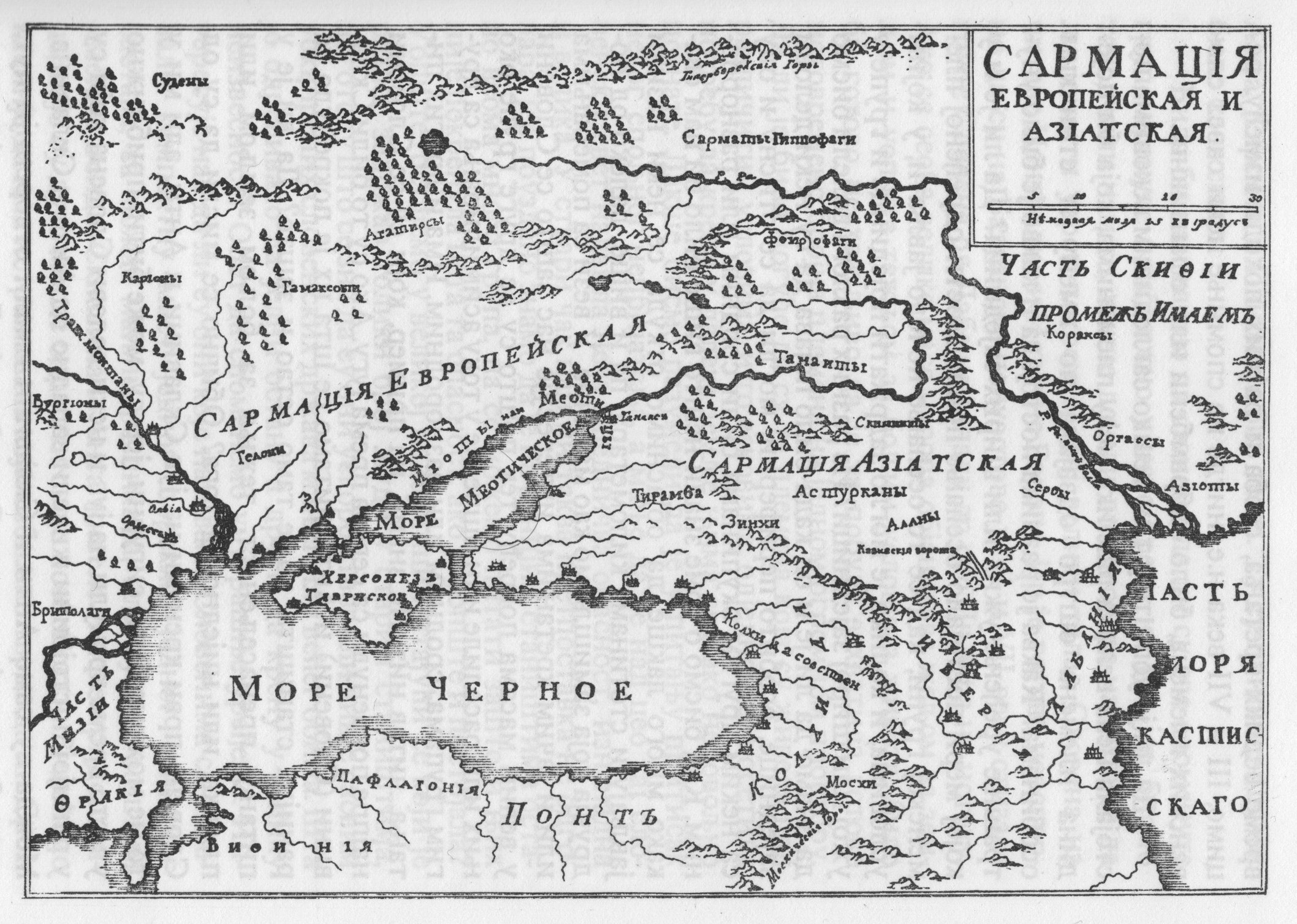 Map of European and Asiatic Sarmatia - made by Jovan Rajić in 1794. Language of this map is archaic version of literary Serbian from the 18th century.